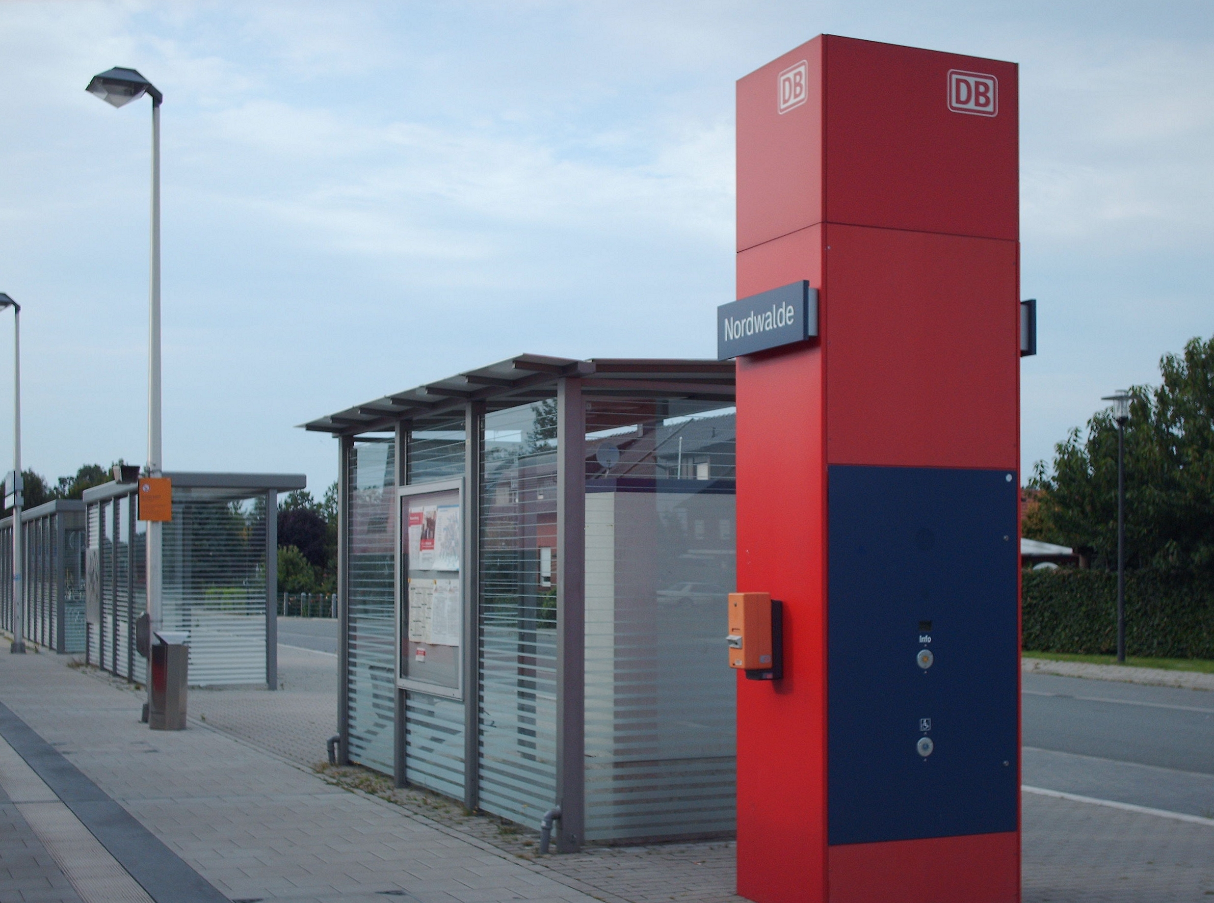 Nordwalde station, Nordwalde, Germany check usage